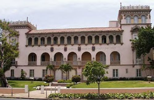 School of Tropical Medicine building in Puerta de Tierra, Puerto Rico.